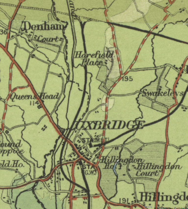 Great Western Railway branch from Denhan Junction to Uxbridge High Street station on a 1903 Bartholmew's map. The section south of Uxbridge High Street to the Uxbridge (Vine Street) branch was not constructed.